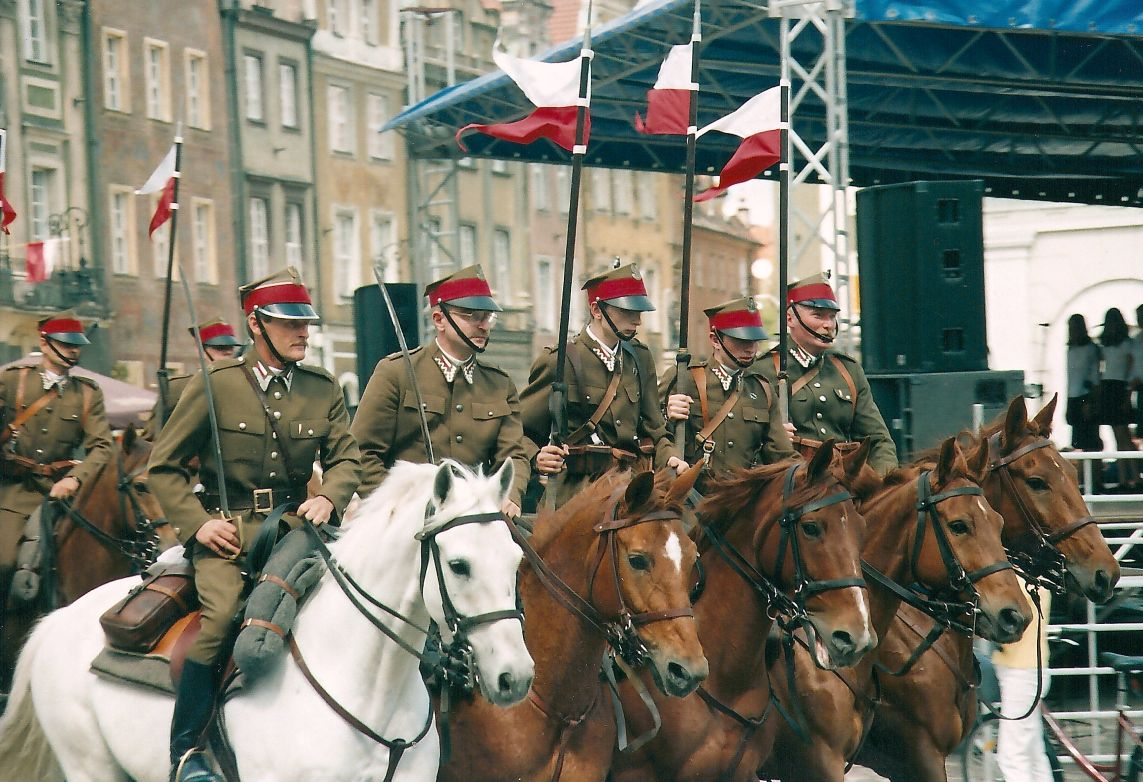 Fest of 15th Reg. of Poznań Uhlans